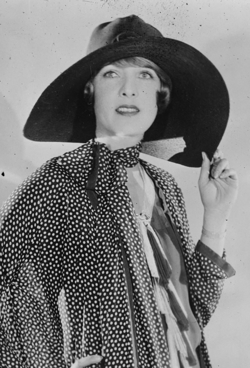 Actress Claire Windsor